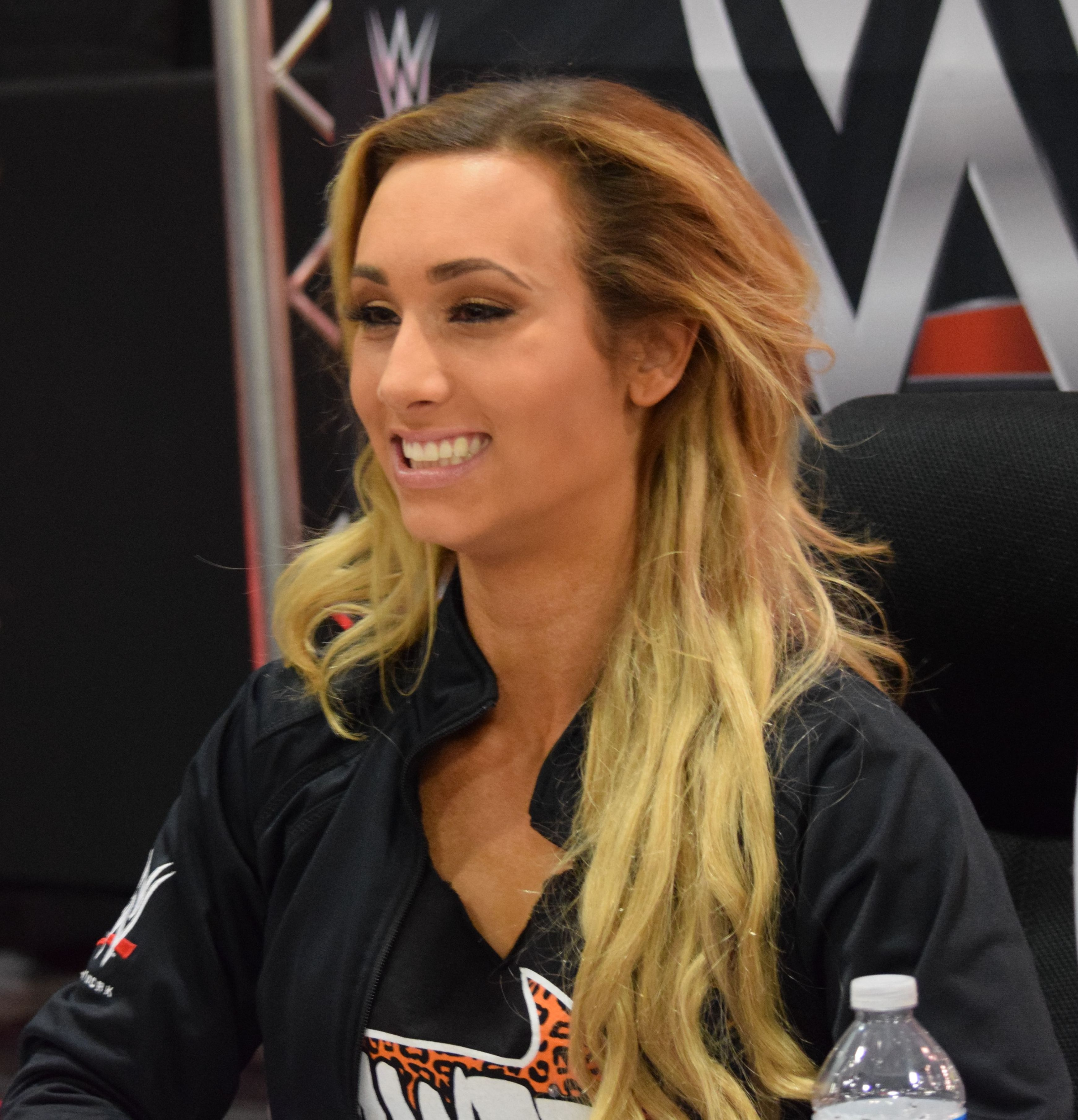 WWE NXT Divas Carmella at an autograph signing at the Arnold Classic 2015 on March 7, 2015. Cropped from original.